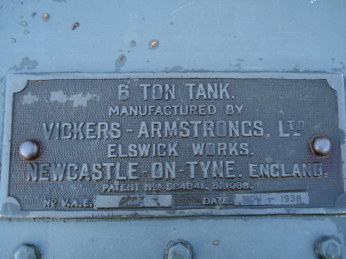 Finnish 6-ton Vickers tank, manufactured in Britain in 1938. This tank has the Bofors 37 mm gun, in contrast to many Vickers tanks in Finnish service which were upgunned with the Soviet 45 mm gun during the war. The blue-white stripes were used as identification during the Winter War, presumably to distinguish the tanks from very similar looking Soviet T-26s. This photo shows the manufacturer's label on the front of the tank. Displayed in Finnish Tank Museum (Panssarimuseo) in Parola.